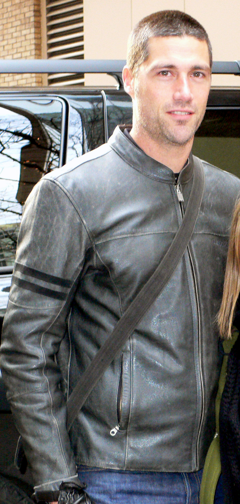 Outside the Regis & Kelly with Matthew Fox form ABC's Lost. Nicest guy you'll ever meet. Signed and took pictures for 15 minutes going in, then another 15 when he left.